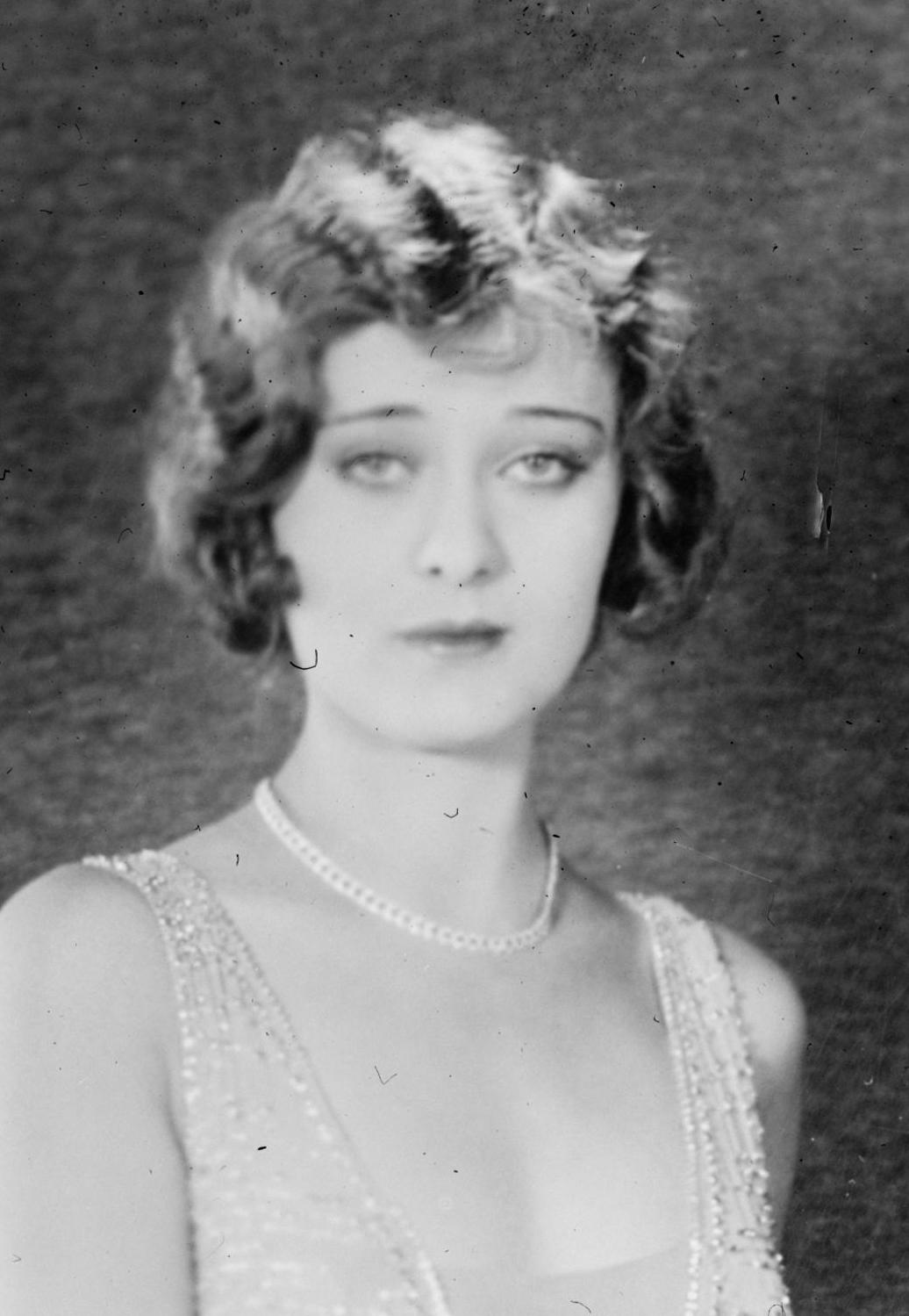 Actress Dolores Costello - 1920s female hair fashion, 1926